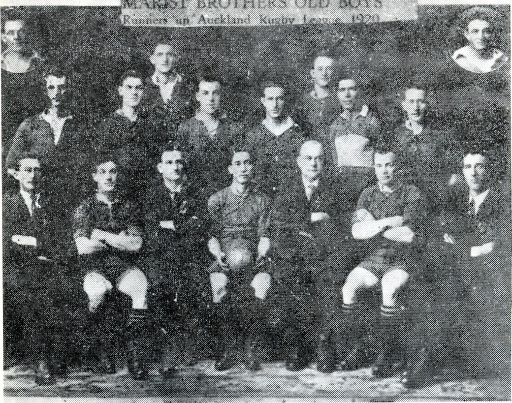 Marist Rugby League Team 1920